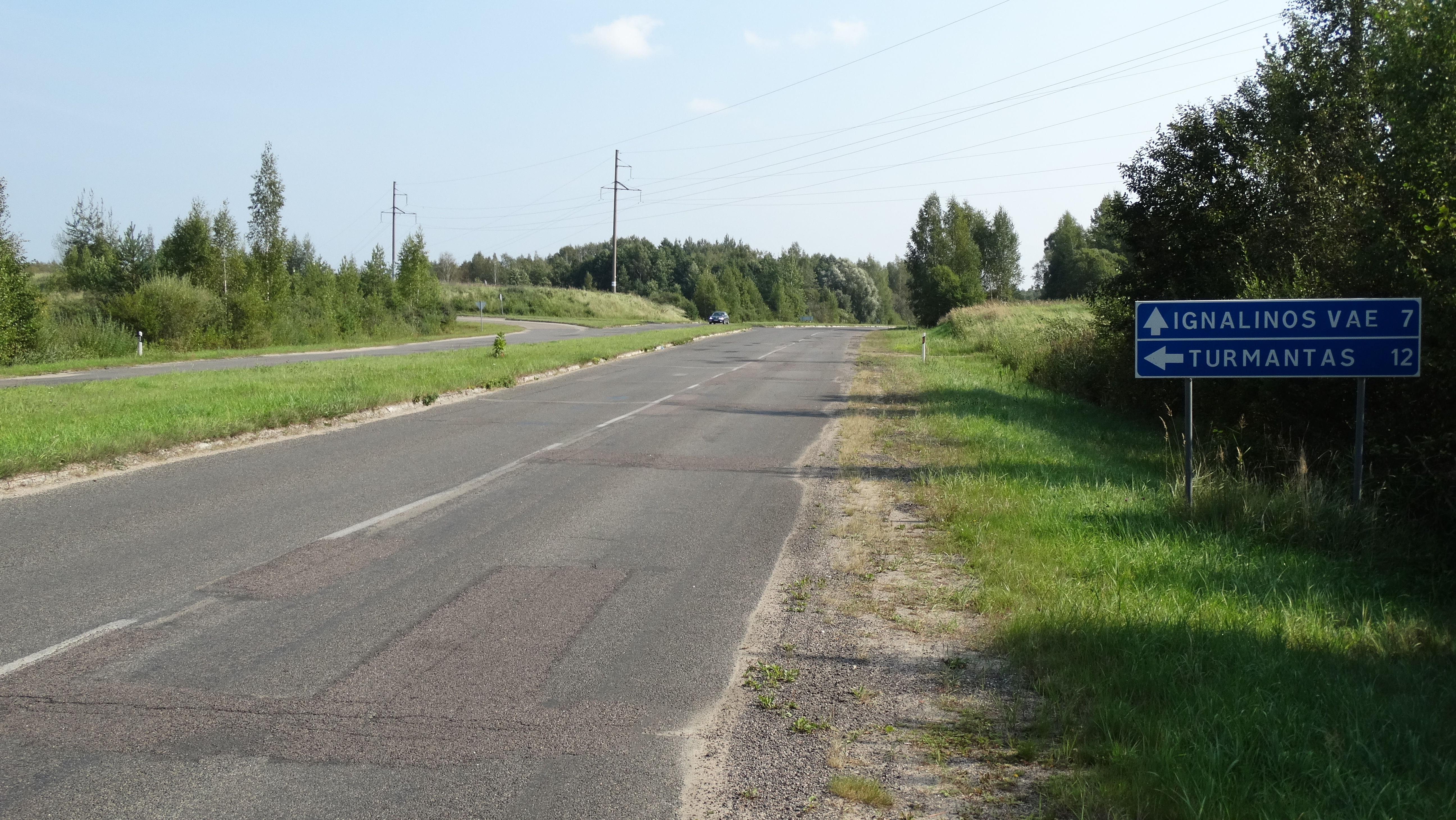 Road by Visaginas, Lithuania